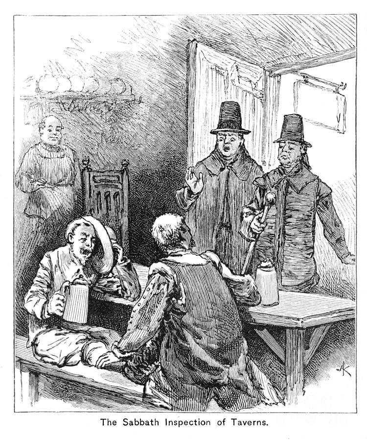 tavern puritans